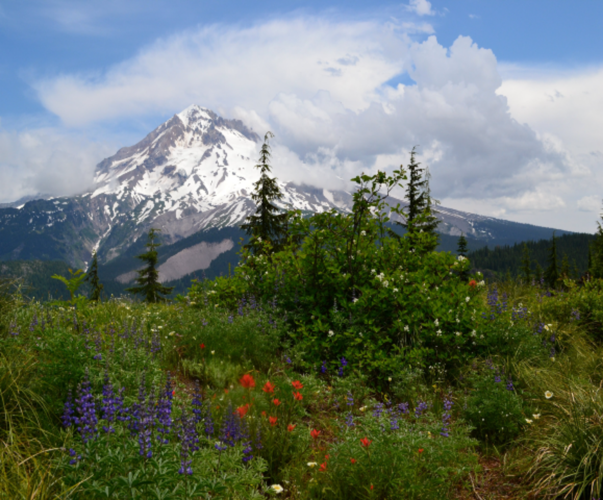 View of Mt Hood and East Zigzag Mountain in the Mt Hood Wilderness on the Mt Hood National Forest in Oregon's Cascades.